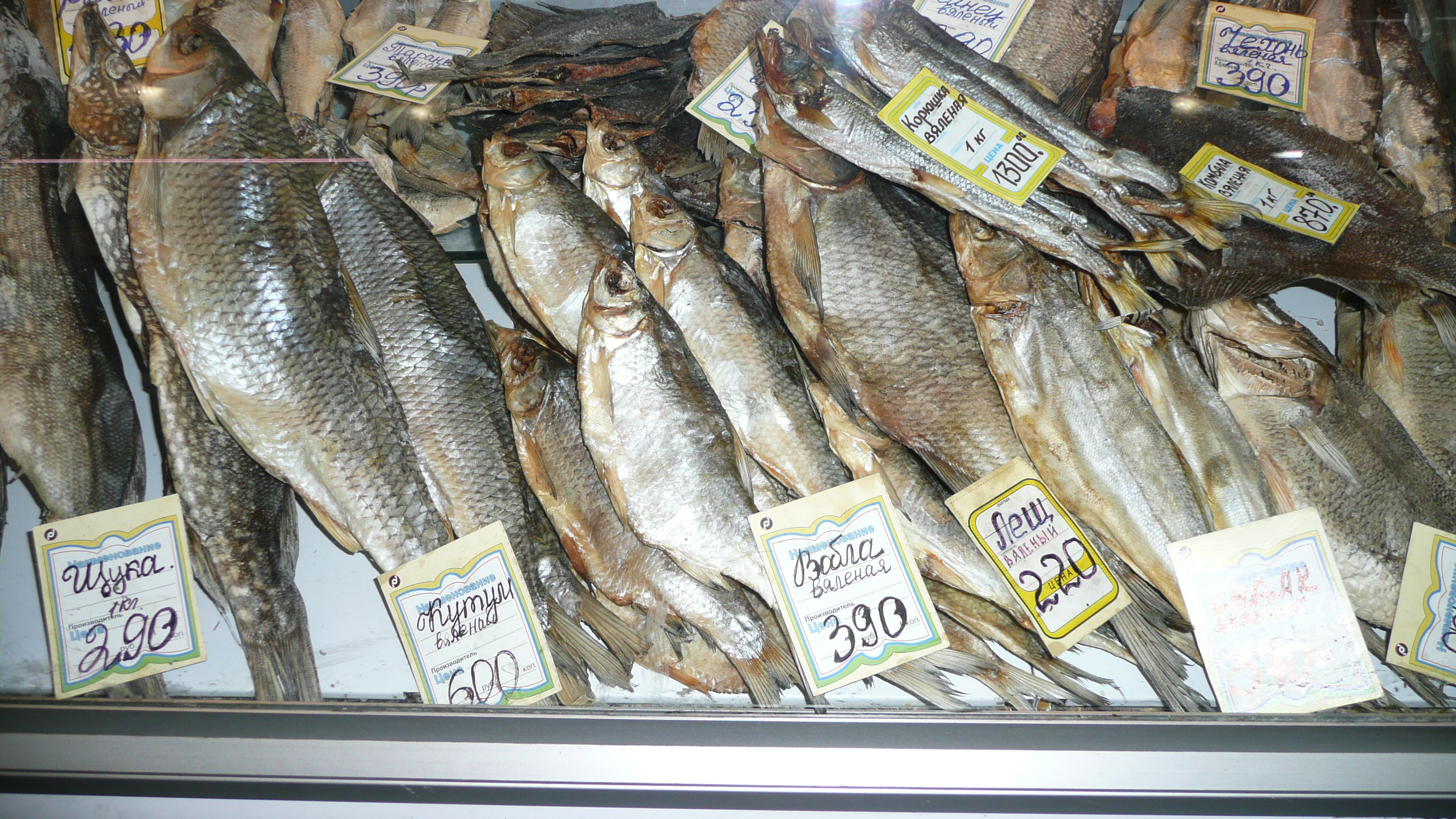 Vobla